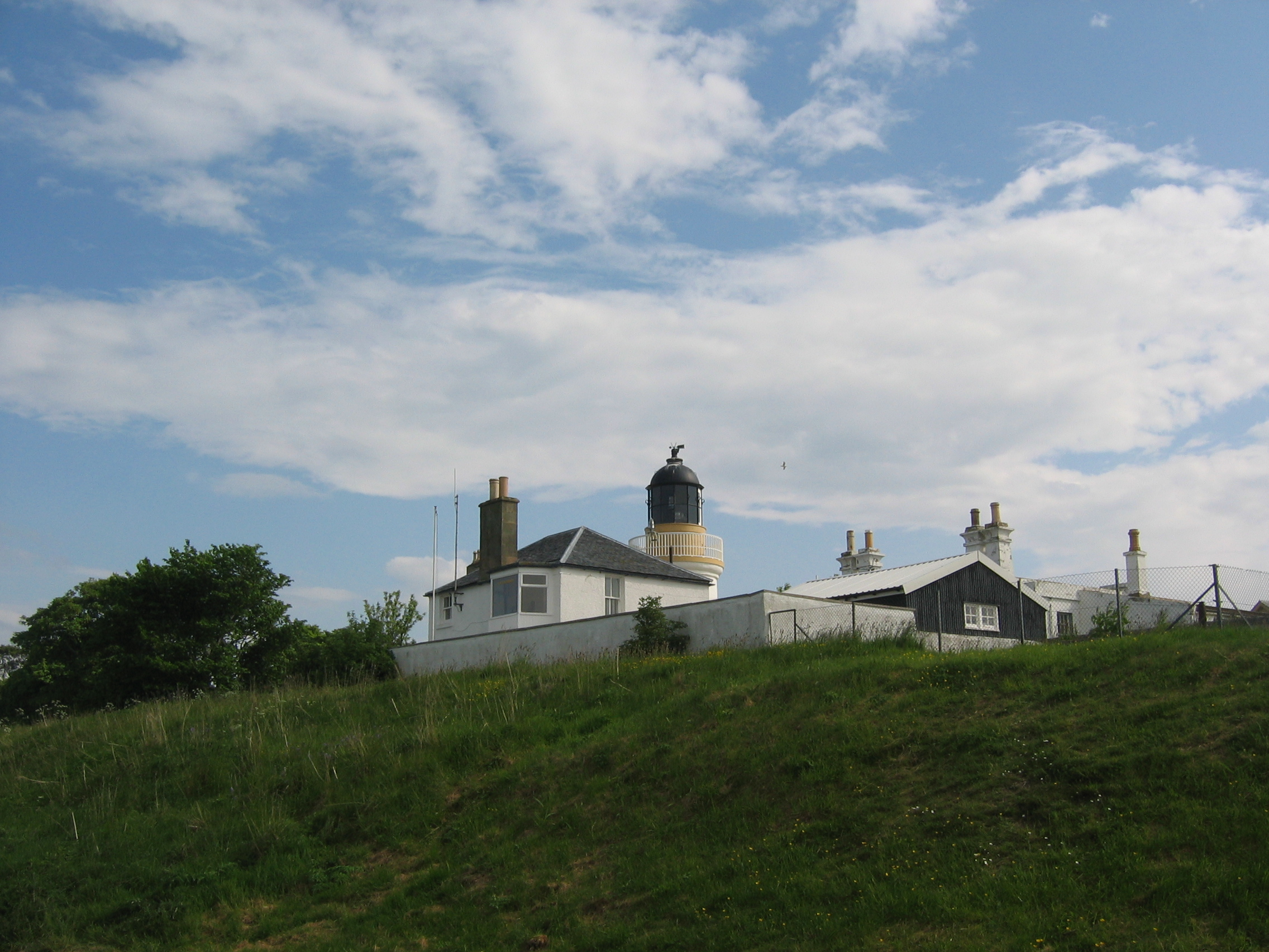 Lighthouse, cromarty, Highlands, Scotland